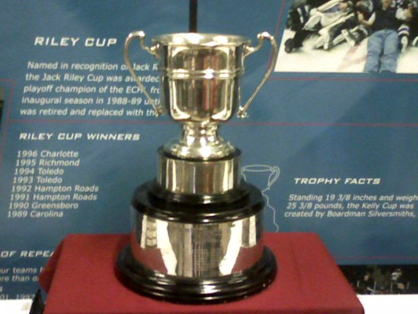 The Kelly Cup on display at U.S. Bank Arena in Cincinnati, Ohio